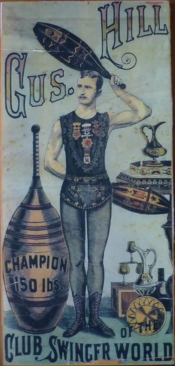 Gus Hill (22 February 1858 - 20 April 1937) was an American vaudeville performer who juggled Indian clubs, later a burlesque and vaudeville entrepreneur who also staged drama and musical comedy.